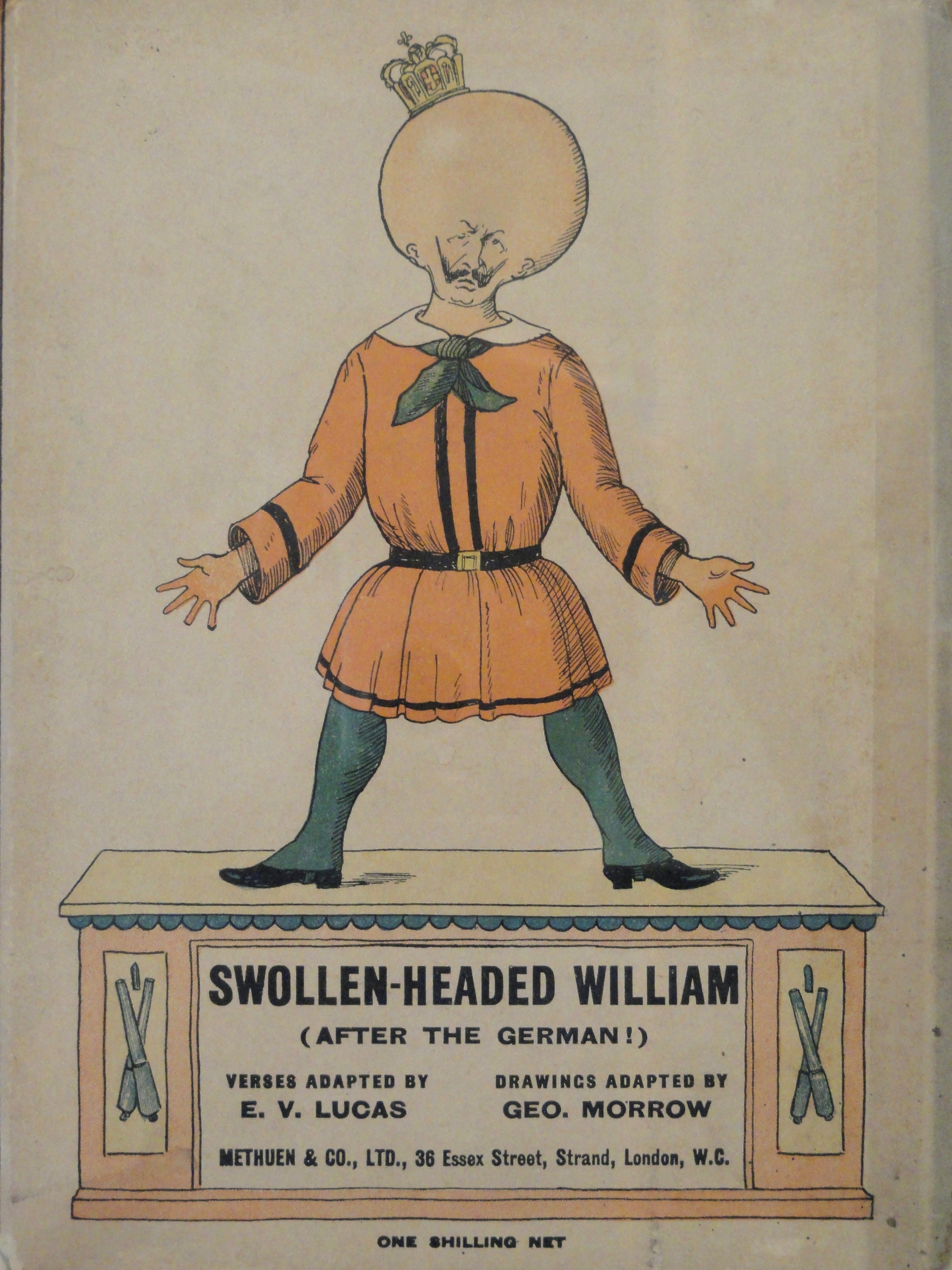 Books in the Struwwelpeter Museum, Schubertstr. 20 60325 Frankfurt am Main, Germany. (I asked). Artwork is old enough so that it is in the public domain. I took this photograph and release it into the public domain.